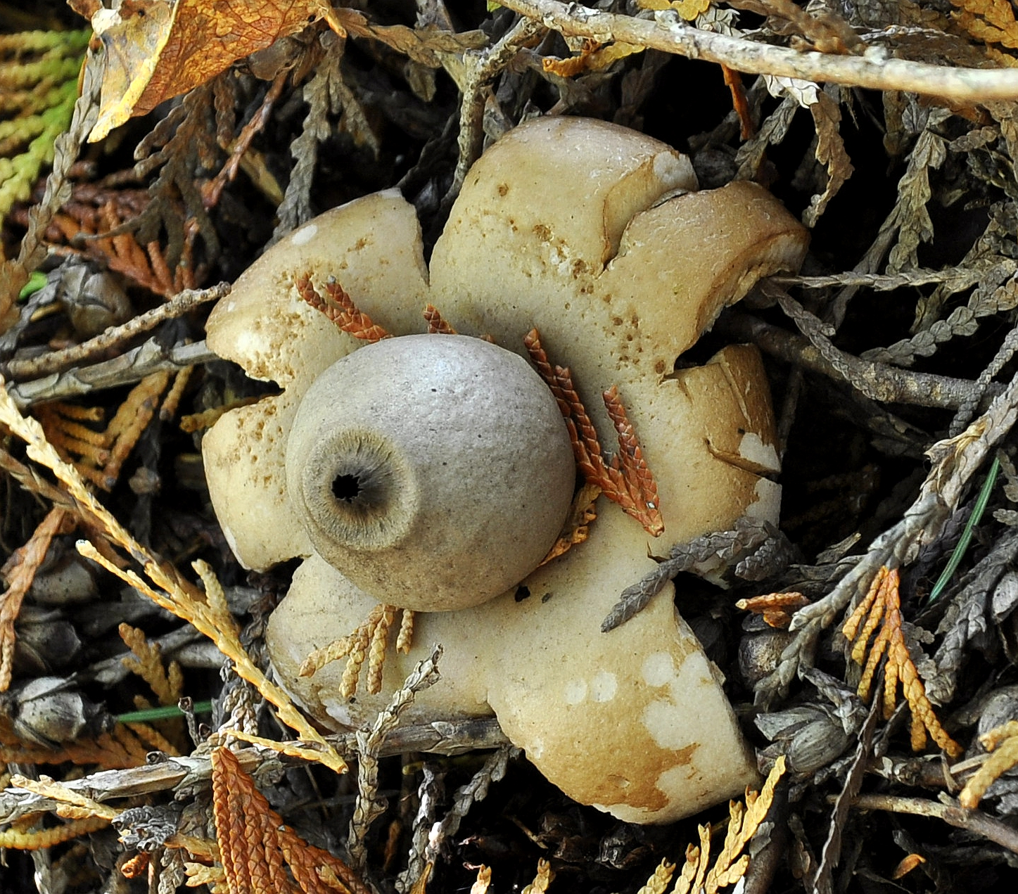 Unidentified Geastraceae fungus, possibly Geastrum saccatum.